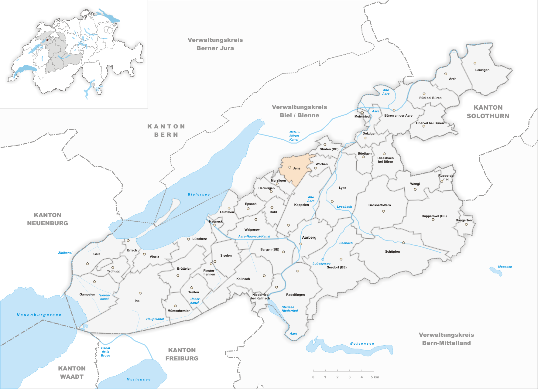 Municipality Jens